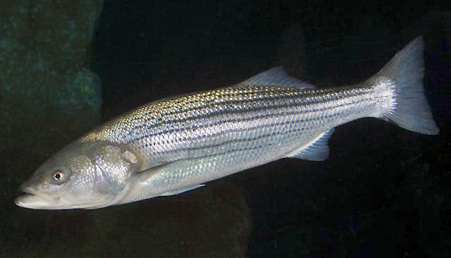 Morone saxatilis (Aquarium of the Bay)